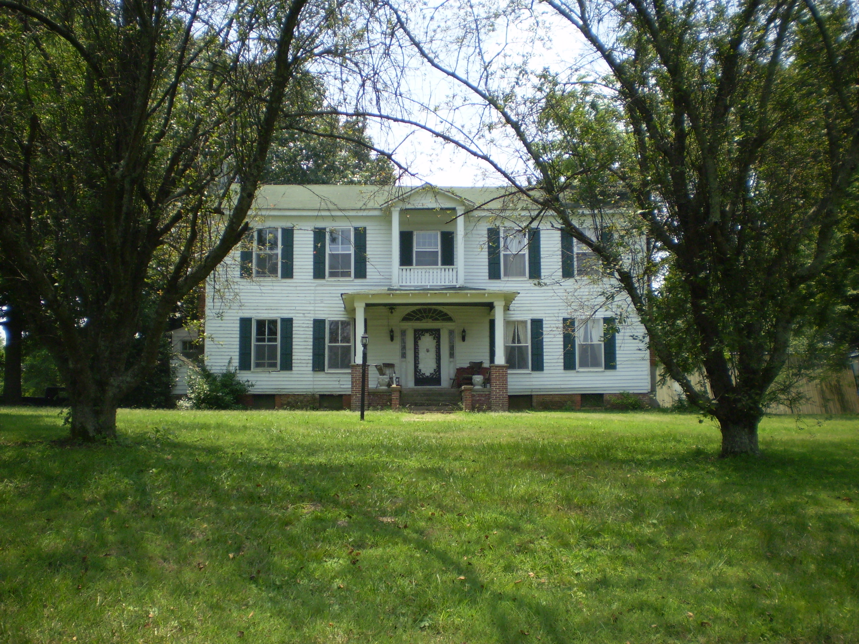 View of the front of the Taylor House at Oak Hill Farm, Keeling, Tennessee